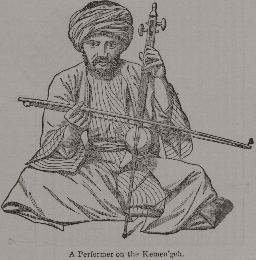 A man sitting crosslegged and playing the Kemen'geh. . Engraving (prints).